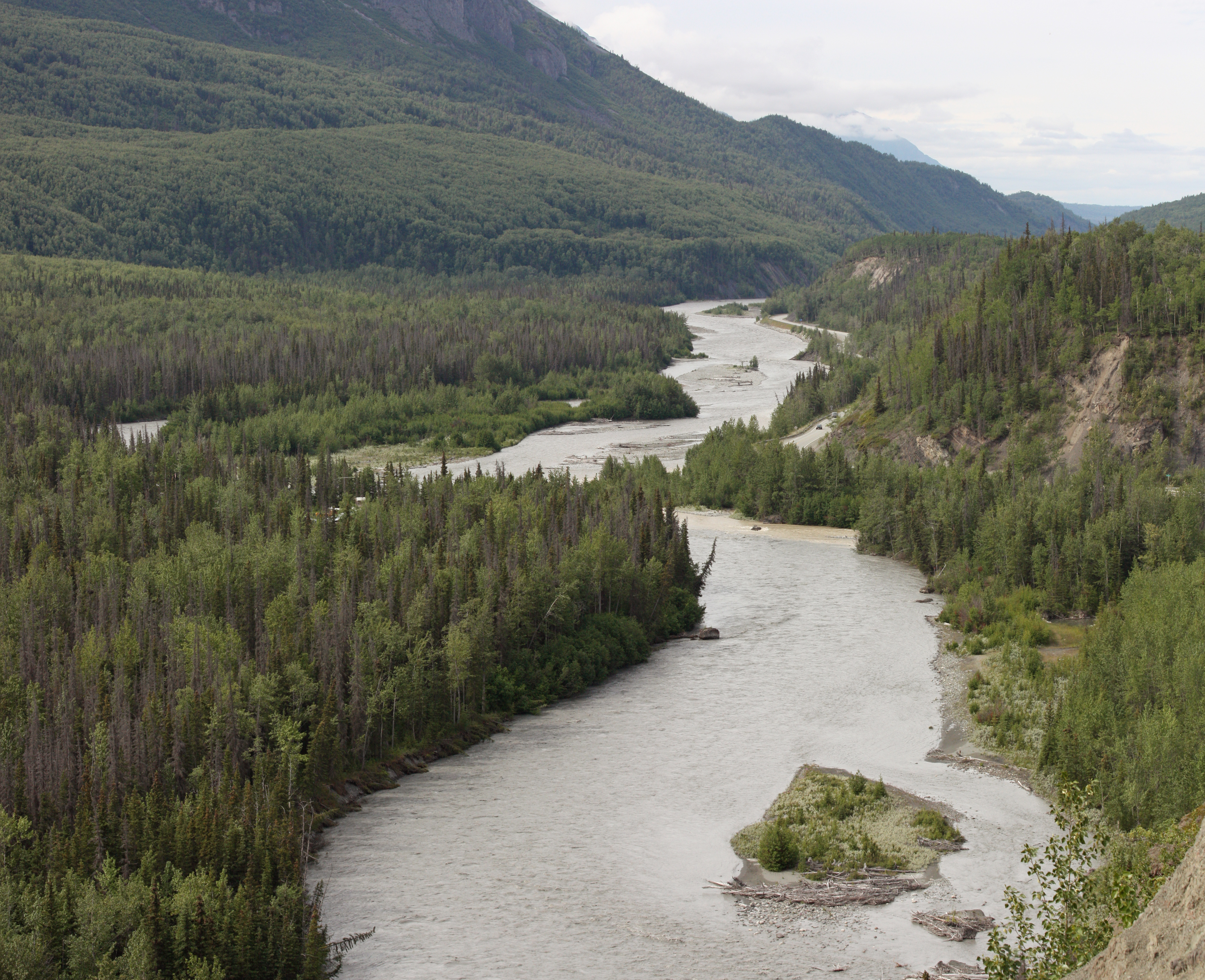 Matanuska River confluence with the Chickaloon River (silt-laden water entering from right); stitched panorama from other versions This image was created with Hugin